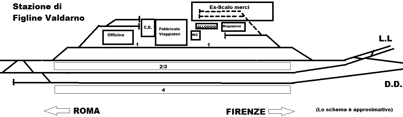 Layout of Figline Valadarno railway station